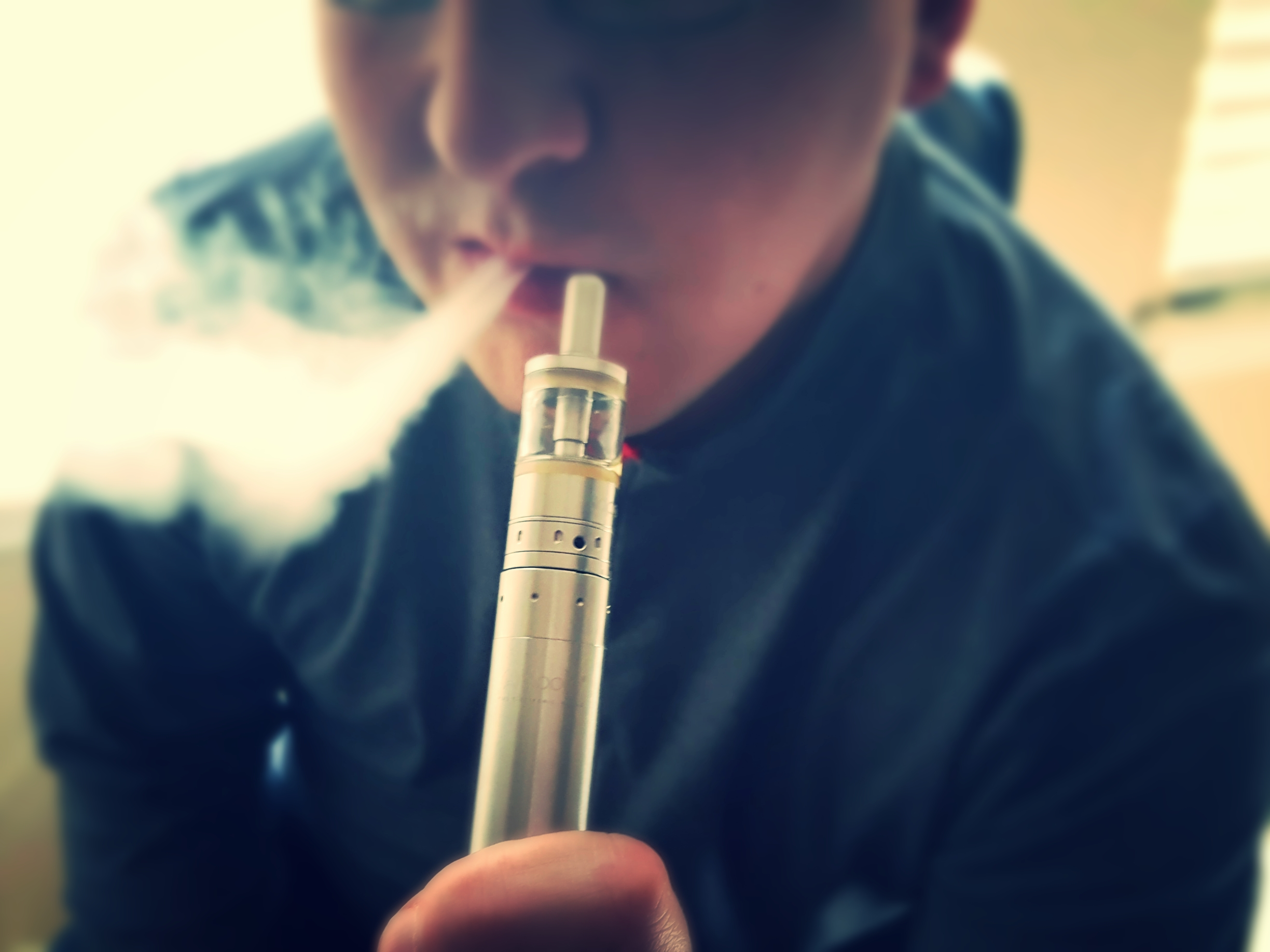 Using an Electronic Cigarette